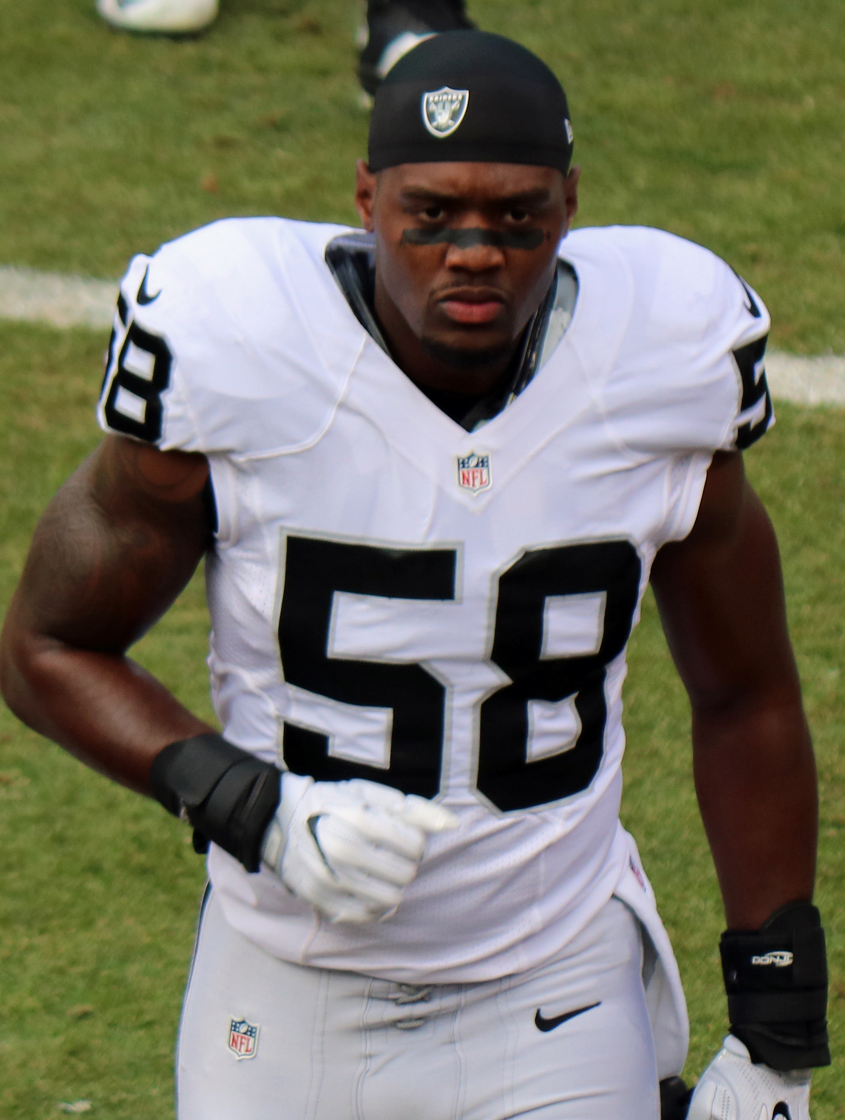 Tyrell Adams, a player on the National Football League.